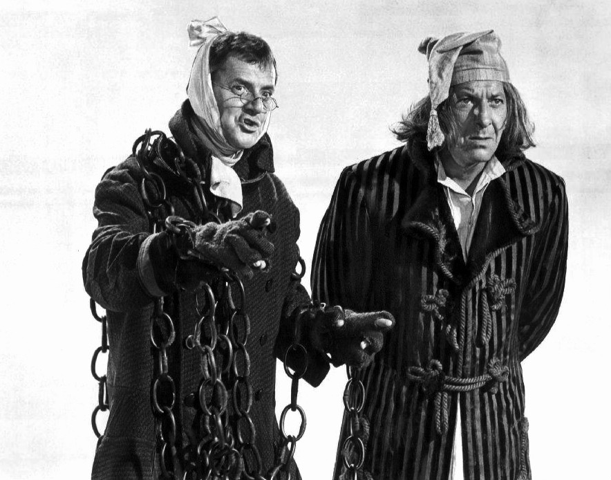 Photo of Tony Randall as Felix and Jack Klugman as Oscar from the television program The Odd Couple. After Oscar refuses the role of Scrooge in a children's play, he dreams he's cast in it anyhow, with Felix playing Marley's ghost and the rest of their poker buddies as other characters.